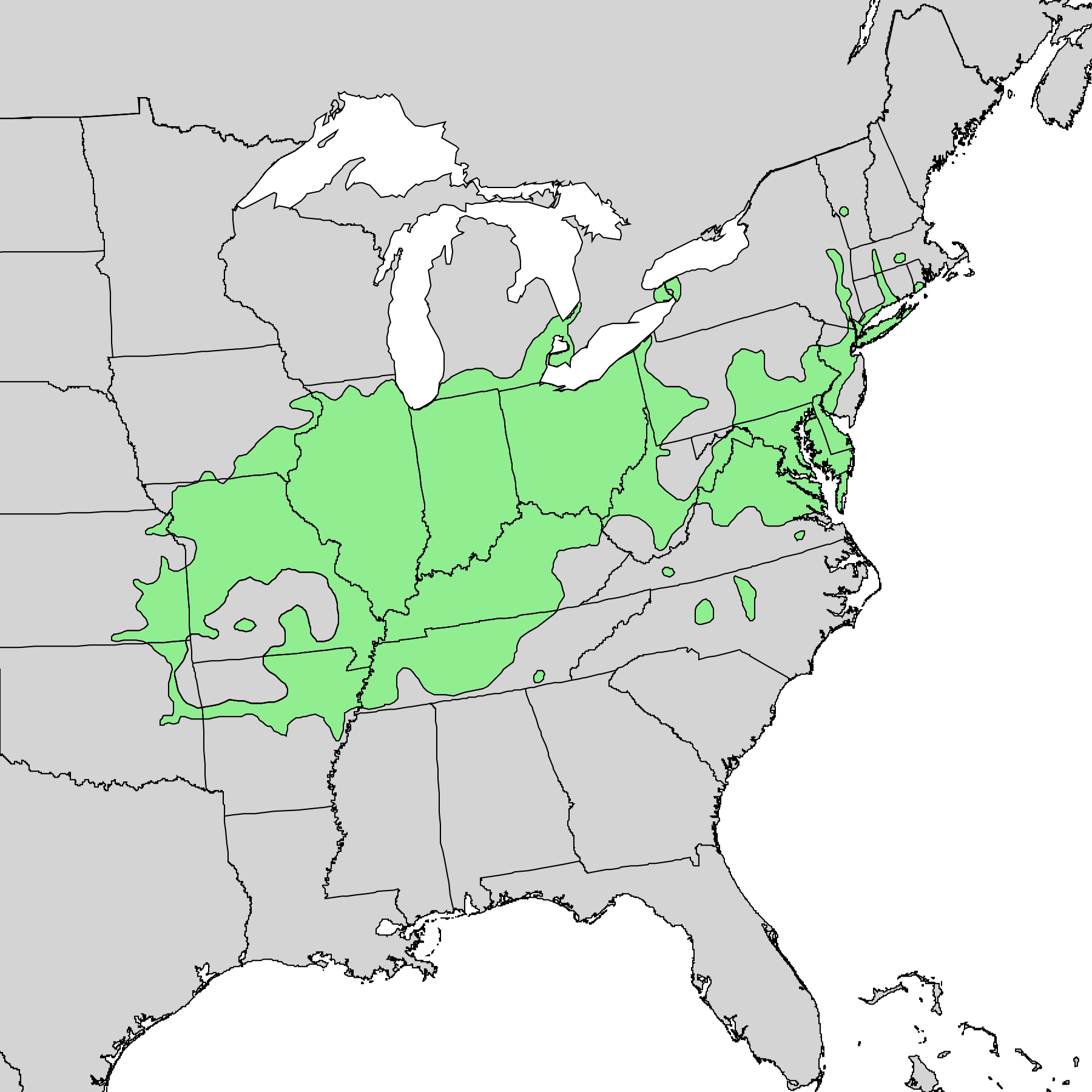 Quercus palustris Münchhausen (pin oak) range map